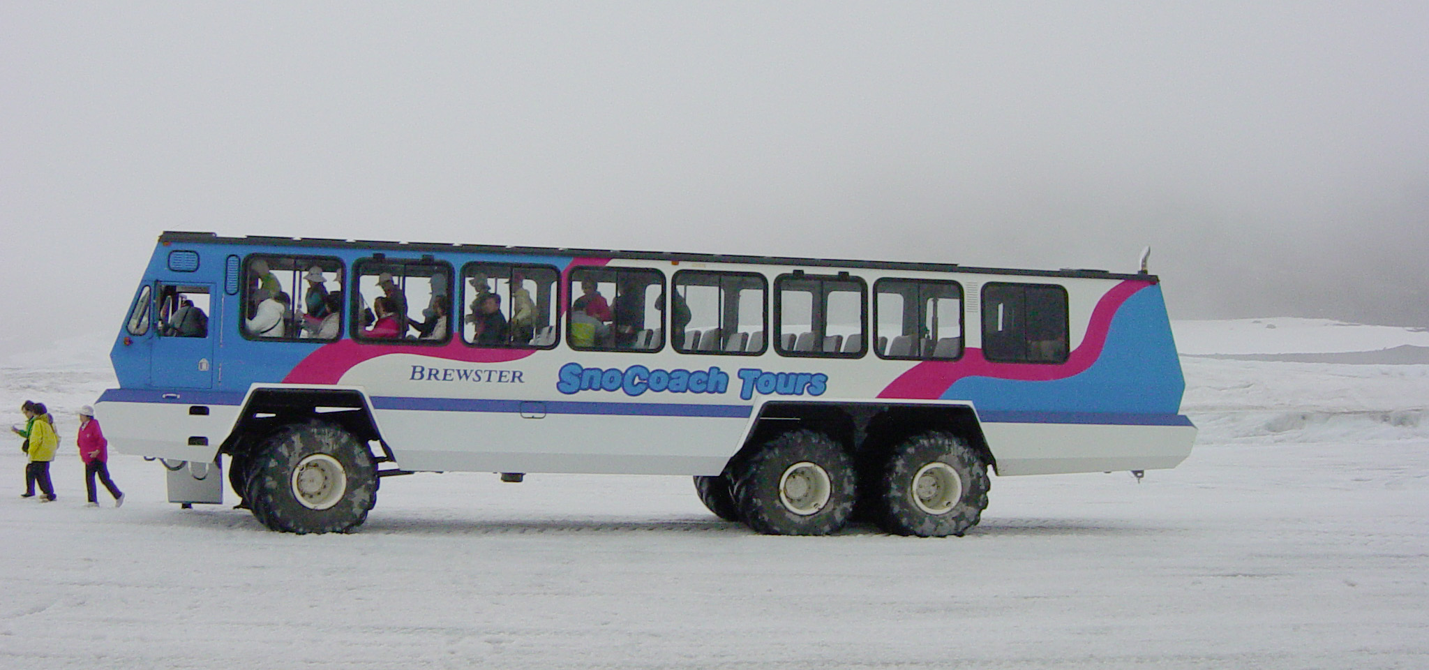 Modern snow coach at Athabasca Glacier.